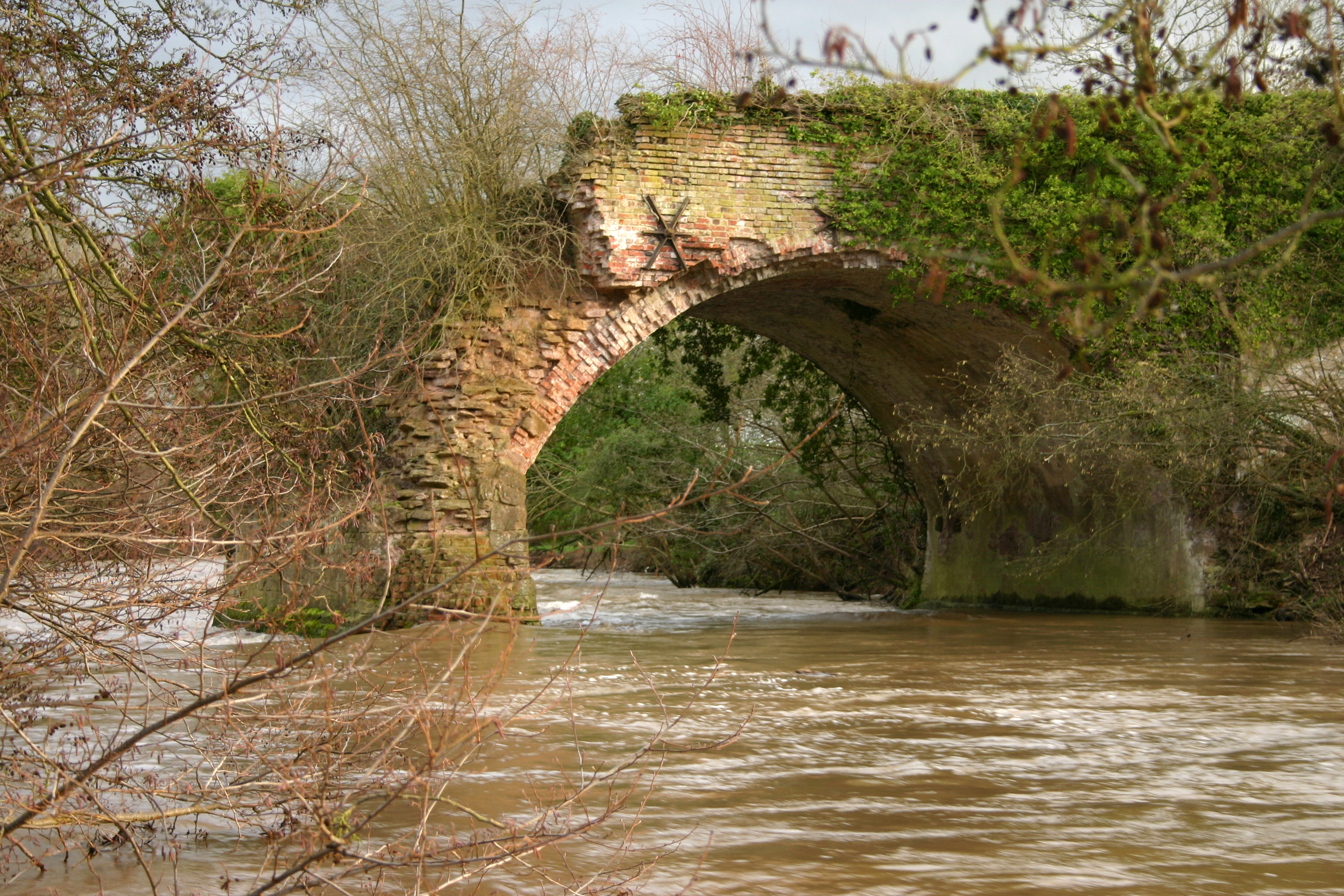 One of the few remaining traces of the Leominster Canal, the aqueduct over the river Teme at Little Hereford was allegedly demolished as a training exercise during World War II.